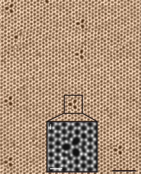 Electron microscopy (STEM) image of ​WSe2 observed at 500 °C, showing three-fold defects.